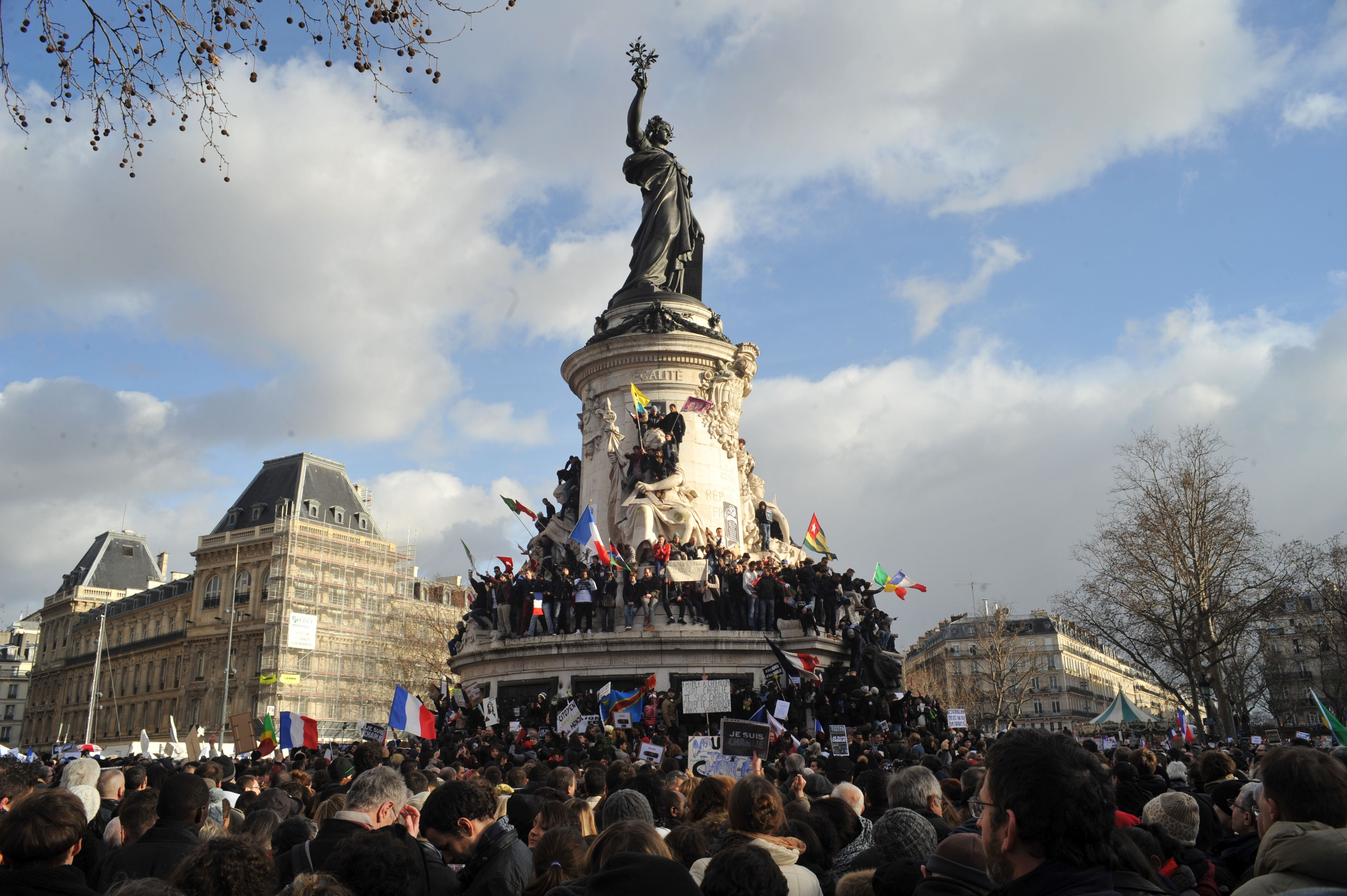 Paris rally in support of the victims of the 2015 Charlie Hebdo shooting, 11 January 2015.